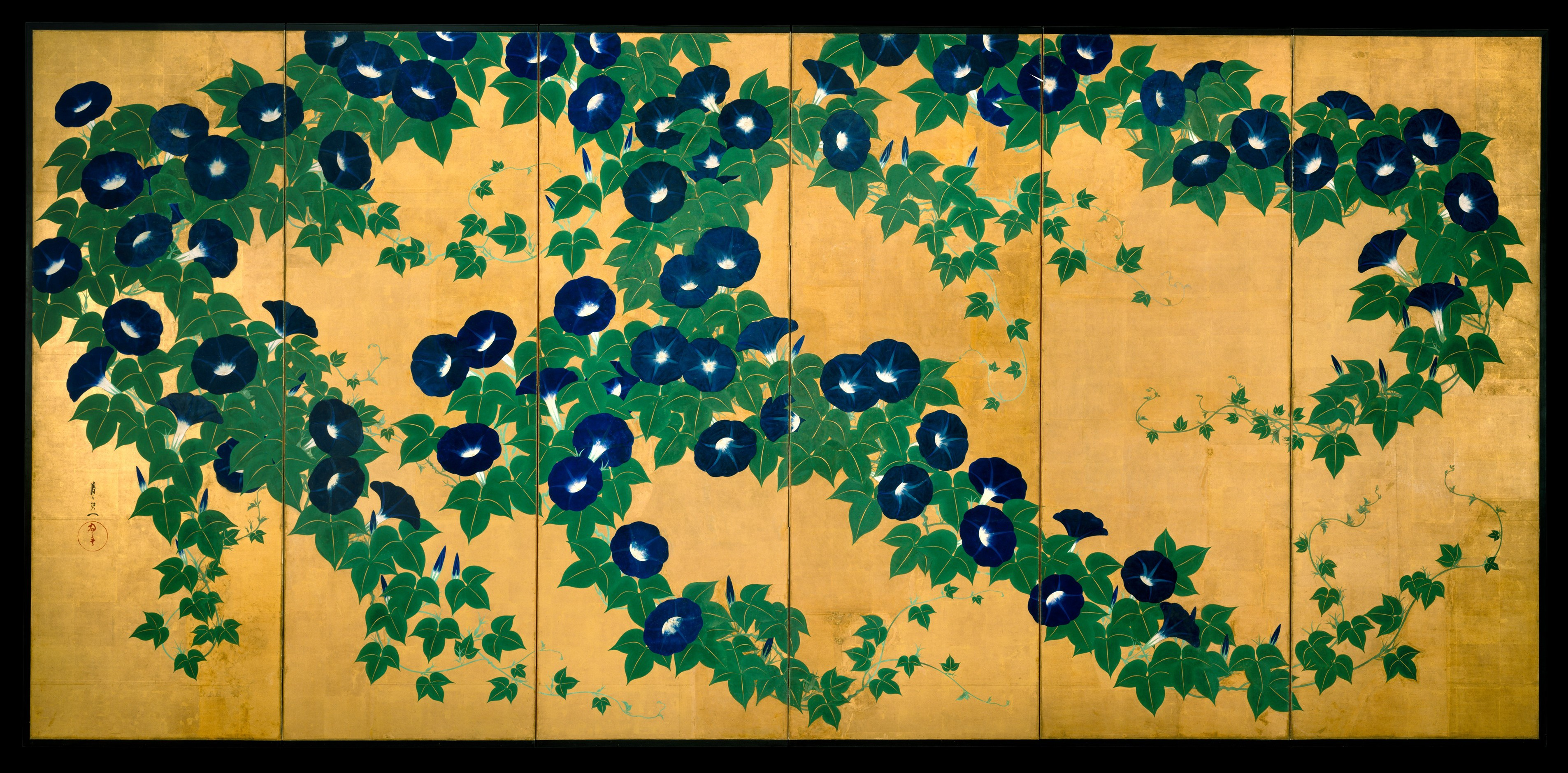 Japan; Folding screen; Screens